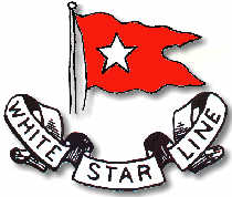 Logo of the White Star Line.